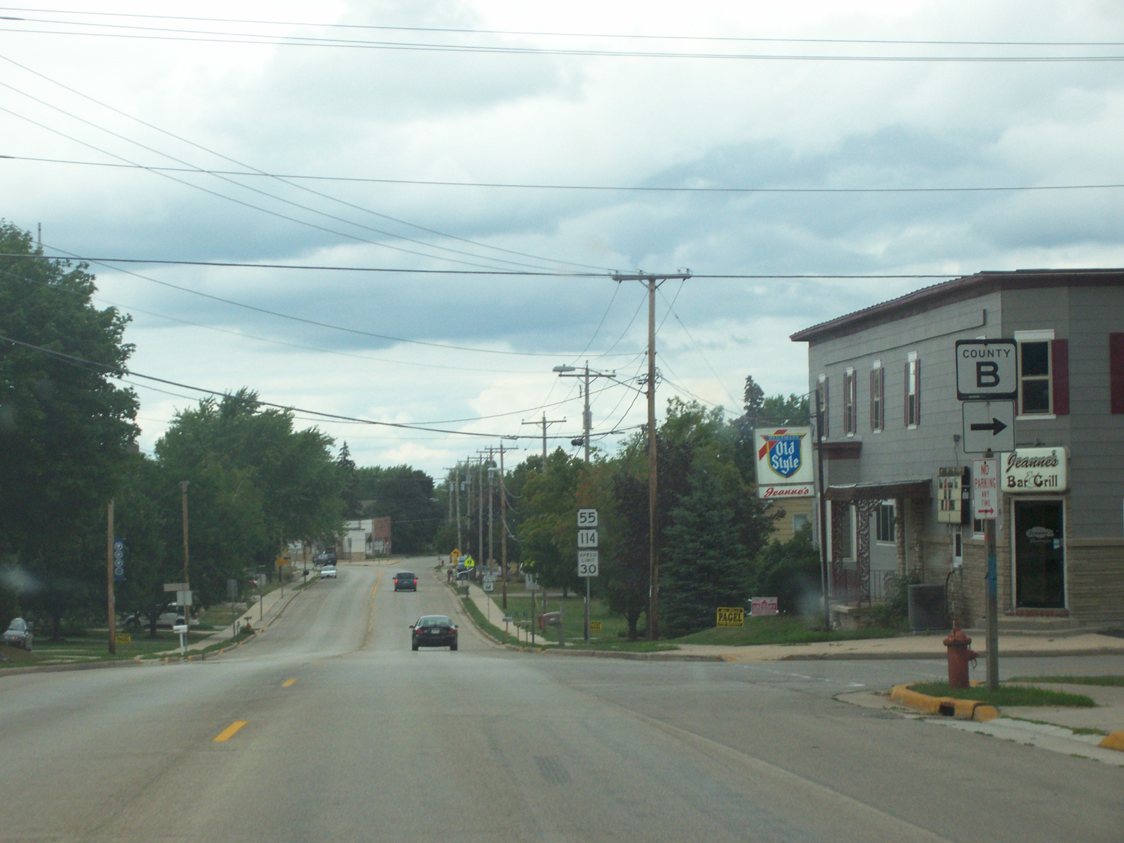 Picture of WIS-114/WIS-55 in Sherwood, Wisconsin, USA, taken August 19, 2006 by User:Royalbroil Category:Images of Wisconsin highways